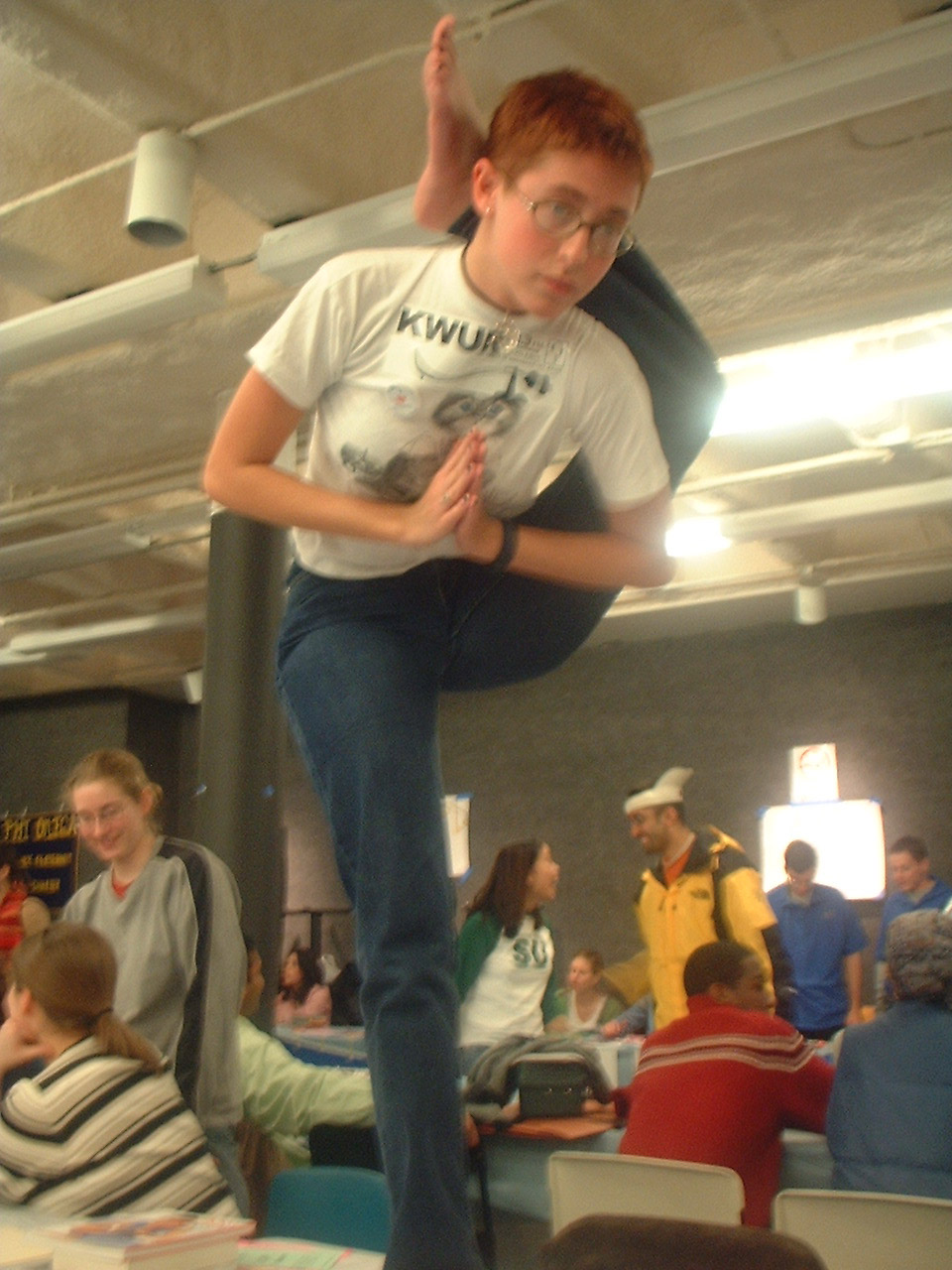 A woman (who obviously does some yoga) with her foot behind her head, standing on a table.